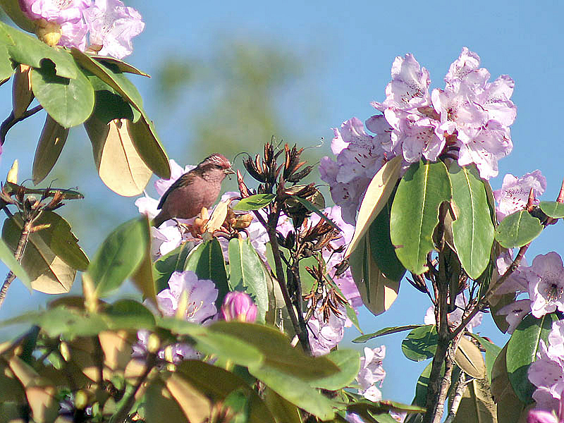 Pink-browed Rosefinch Carpodacus rodochroa in Kullu District of Himachal Pradesh, India.